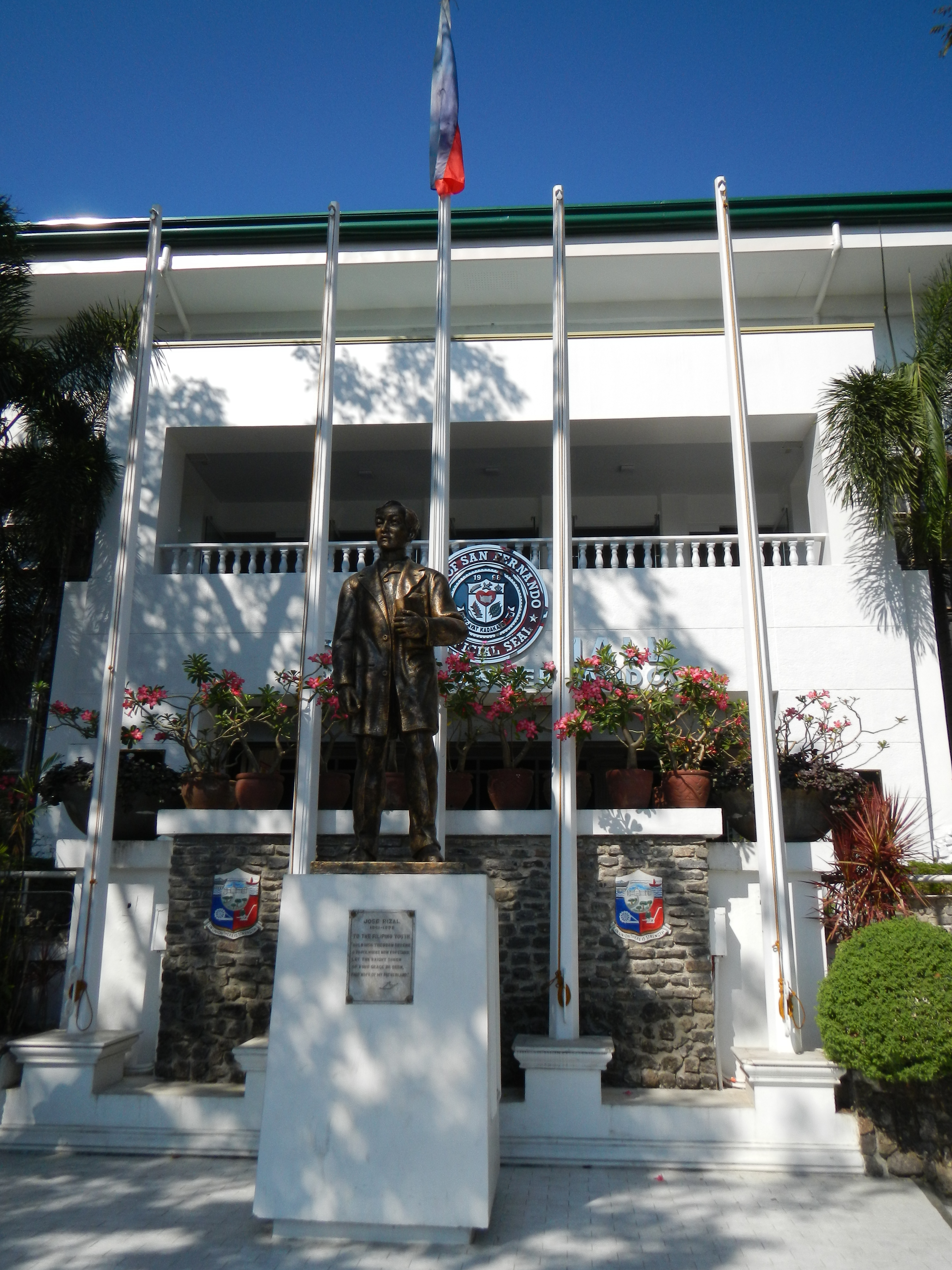 San Fernando City, La Union [1][2][3][4] La Union[5]